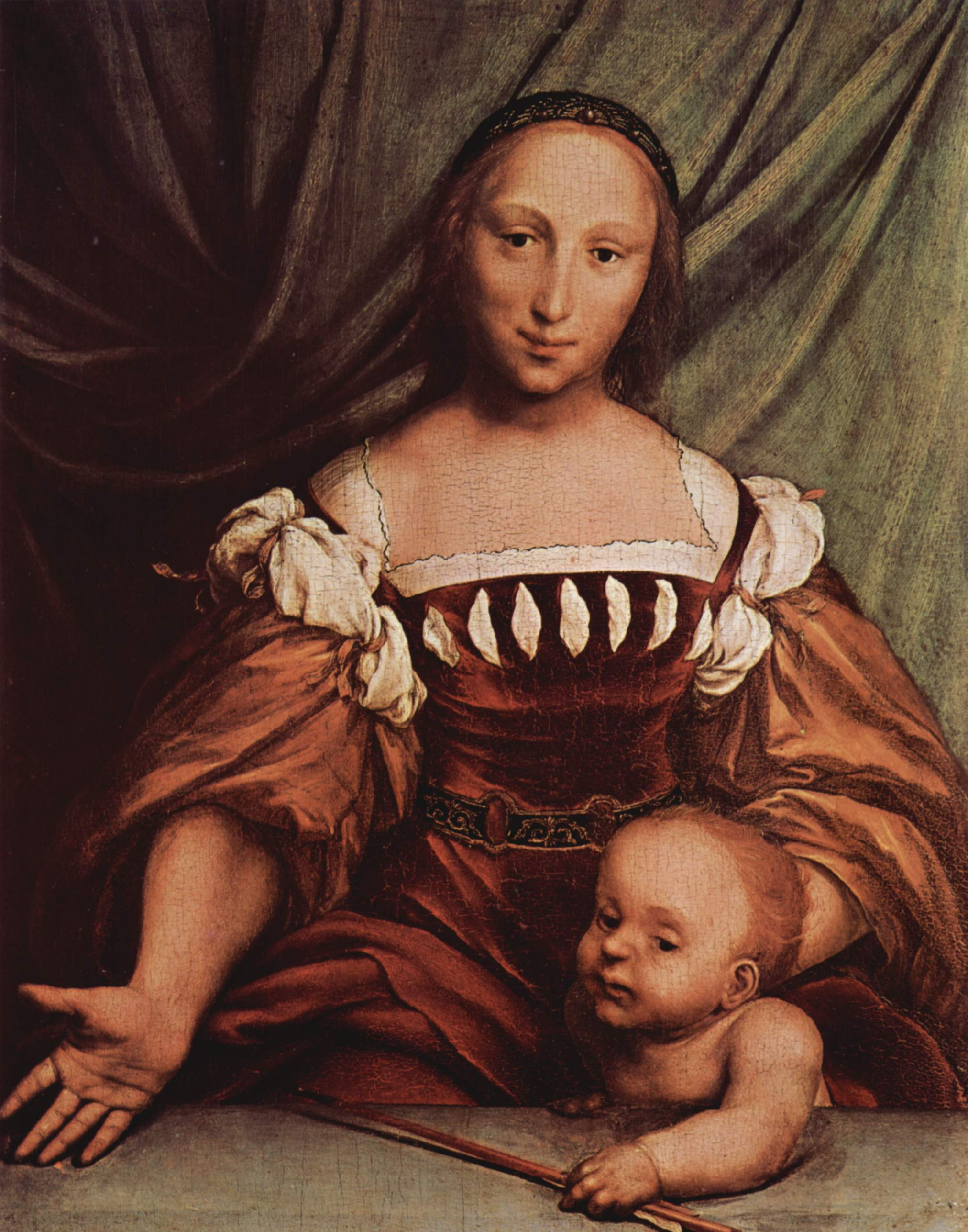 Lais of Corinth The first of Holbein's mythological works, this painting shows Venus, the Roman goddess of love, with Amor (Cupid) clutching love's arrow. The work entered the Amerbach collection in 1578, where the inventory records that it depicts a member of the Offenburg family. The model, the same used for Holbein's Darmstadt Madonna and for his Lais of Corinth, has been identified with Magdalena Offenburg, who may have been Holbein's mistress. Holbein's Lais (right) was painted a year or two after Venus and Amor and, in effect, acts as a companion piece, though Holbein does not appear to have originally planned the second painting. In the later portrait, the sitter is portrayed as a courtesan, who takes money in return for her affections; according to some scholars, it may therefore contain a coded message by Holbein about his relationship with Magdalena. Art historian Peter Claussen, however, dismisses this interpretation as "pure nonsense". Both paintings employ the same colours and depict the same costumes and drapery. Holbein adopts the style of Leonardo and the Lombard muralists, whose work he may have studied during a visit to Italy. He uses Leonardo's sfumato (smoky) technique to smooth the contours of the faces and limbs, as well as the device of the parapet to set the subject back from the viewer. (References: Buck, pp. 44–43; Derek Wilson, Hans Holbein: Portrait of an Unknown Man, London: Pimlico, 2006, ISBN 1844139182, pp. 112–13; Peter Claussen, "Holbein's Career between City and Court", in Müller, Kemperdick, Ainsworth, et al, Hans Holbein: The Basel Years, 1515–1532, Munich: Prestel, 2006, ISBN 9783791360522, p. 47.)